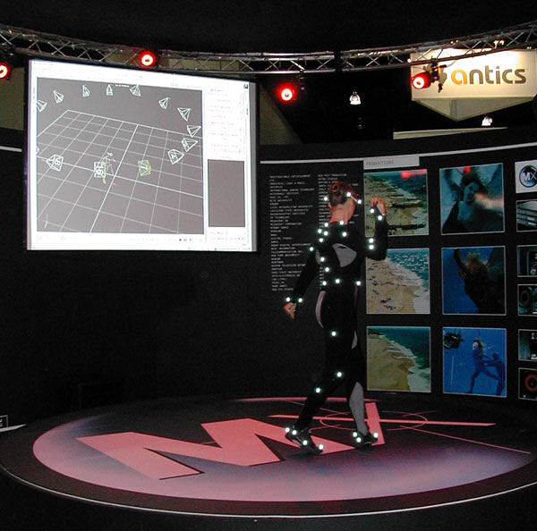 This image shows a motion capture system. It was created to illustrate a wikipedia article.